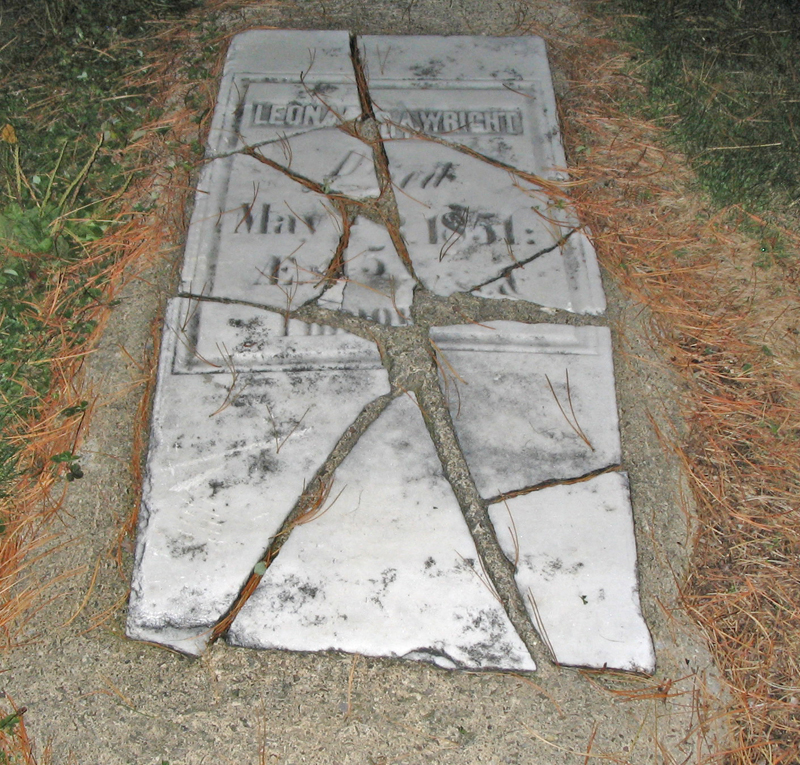 Gbcemetery2